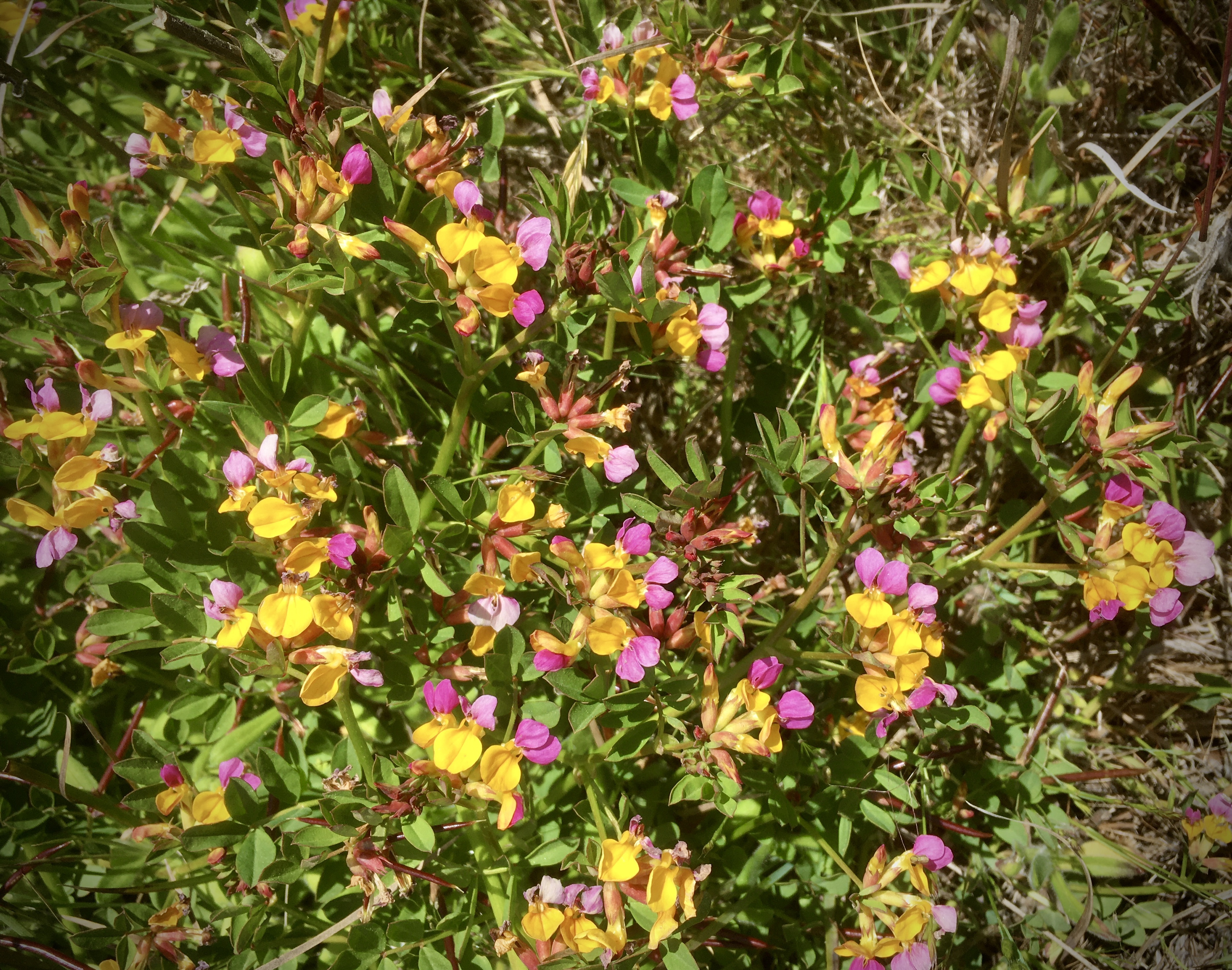 Now in full bloom on the bluff-tops -- these were captured on the coastal trail from the Lone Palm trailhead, Hearst San Simeon SP. I sure wish the botanists had stuck with the Lotus genus for, well, all the lotus plants!